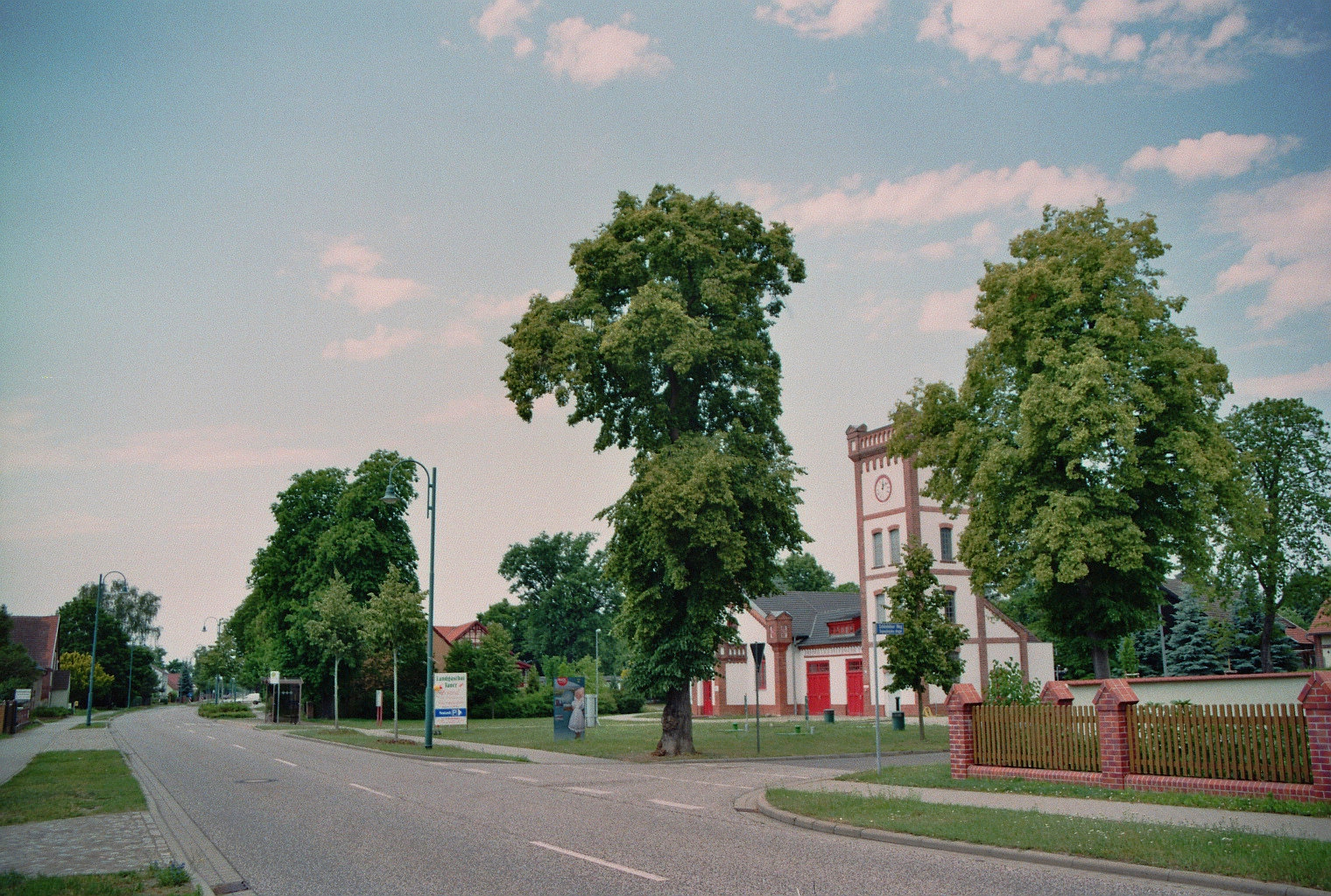 Main Street (Hauptstraße) in Tauer, Landkreis Spree-Neiße, Brandenburg, Germany.